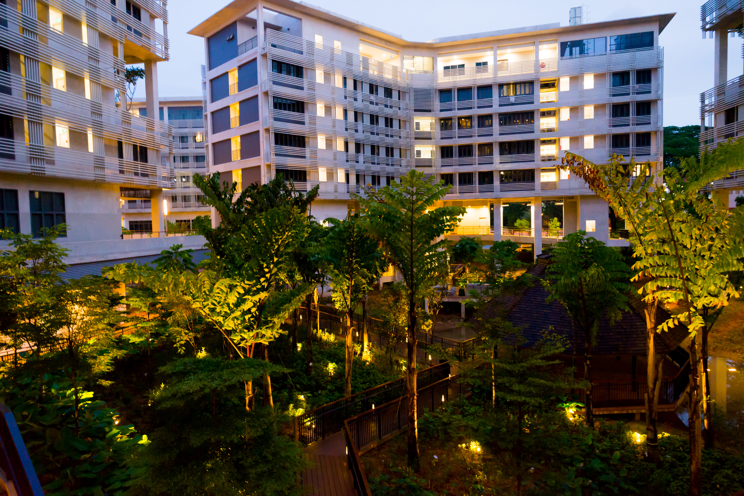 Nanyang Business School Campus Building